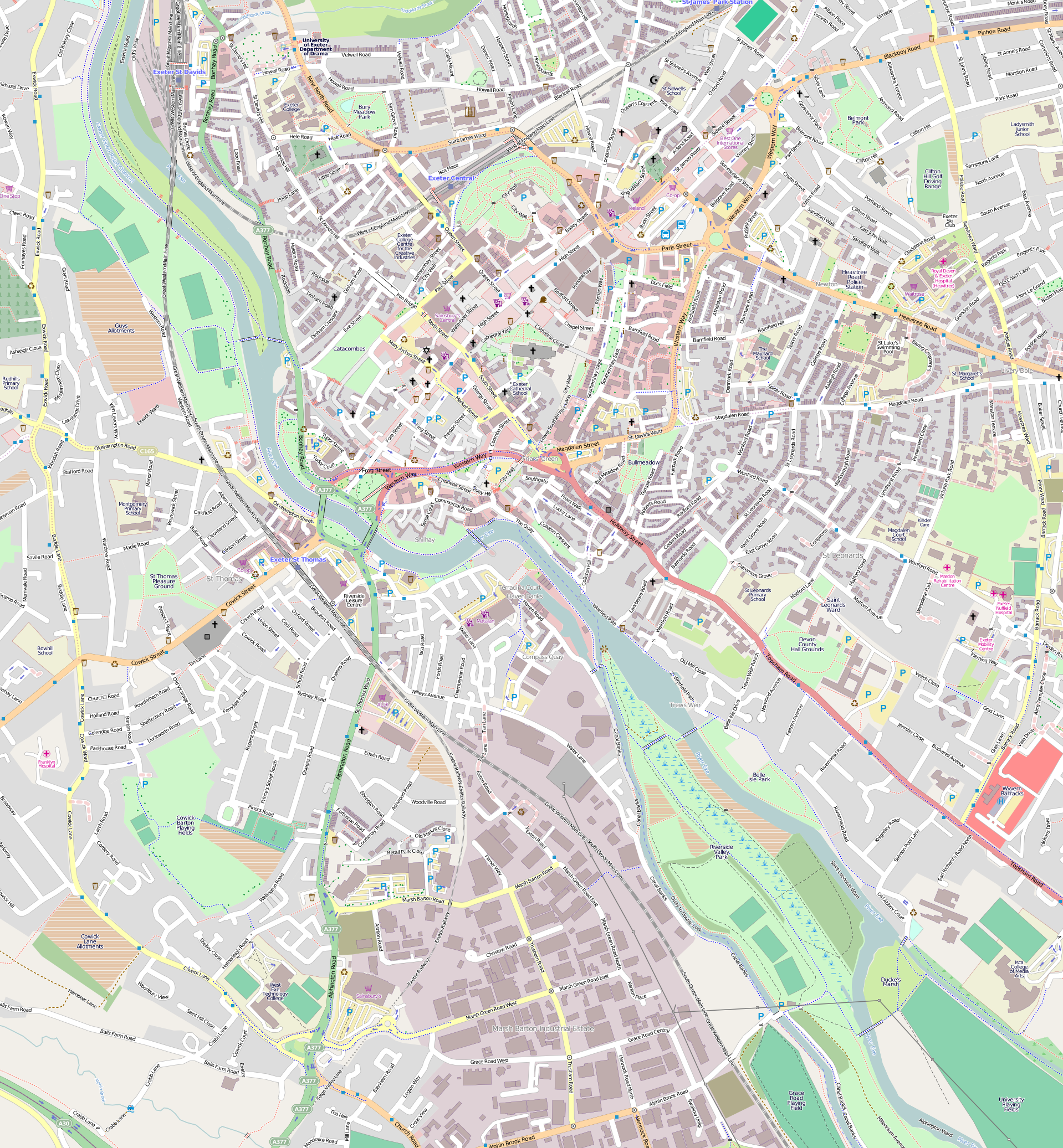 Map of Exeter N: 50.7312° S: 50.7028° W: -3.5506° E: -3.5091°